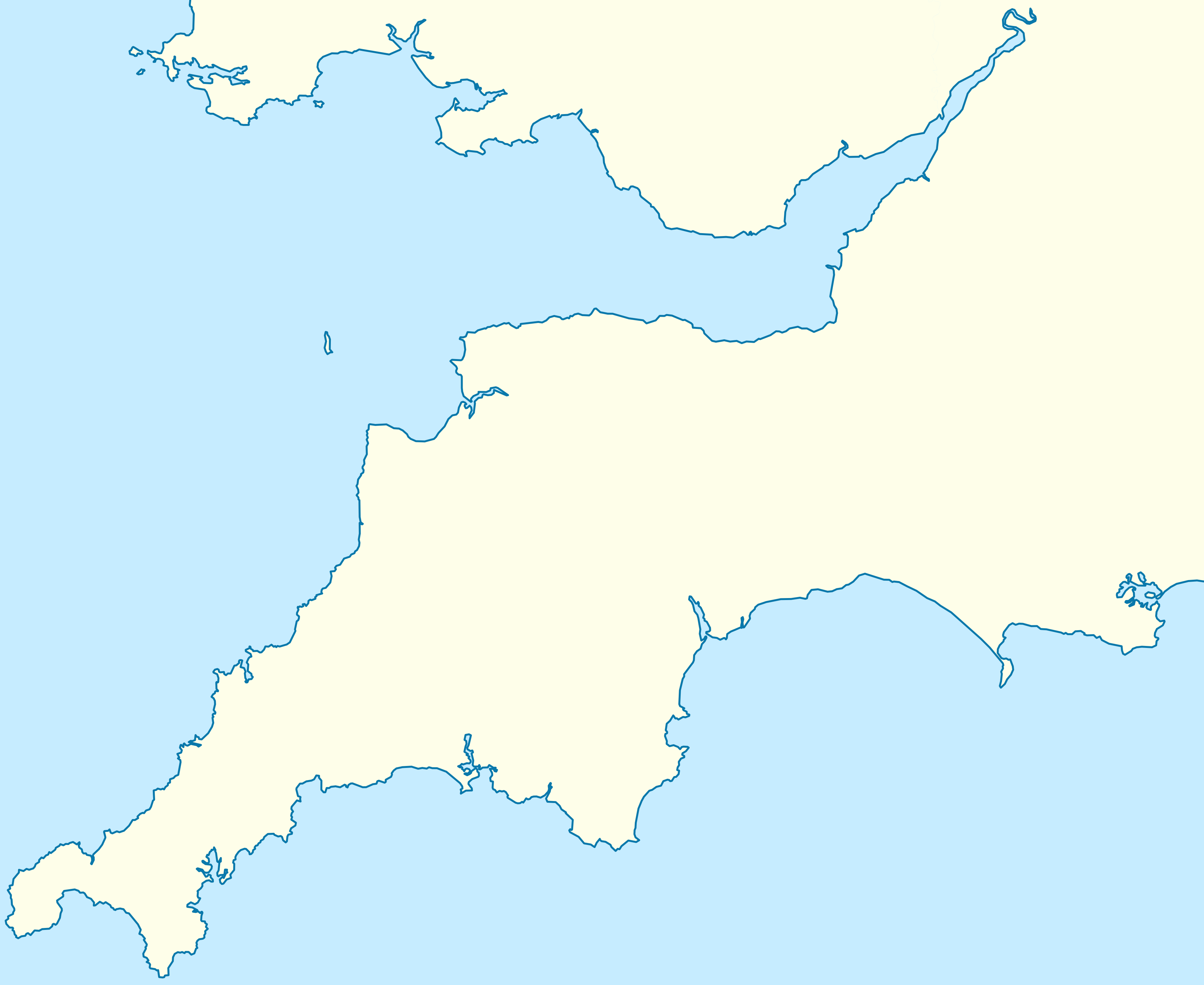 Locator map of Western England